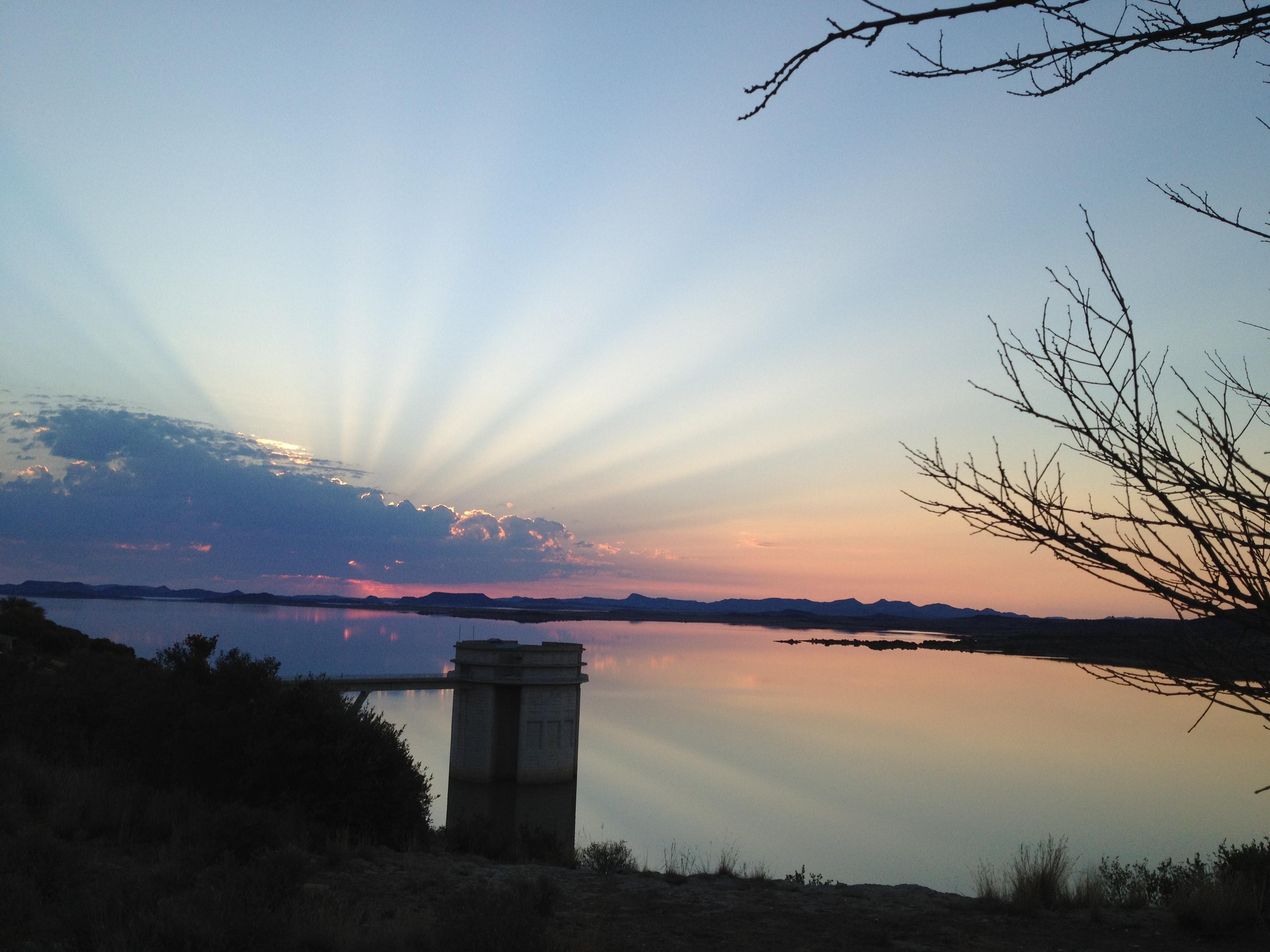 Oviston Orange Fish Tunnel Siloam Village Gariep Karoo